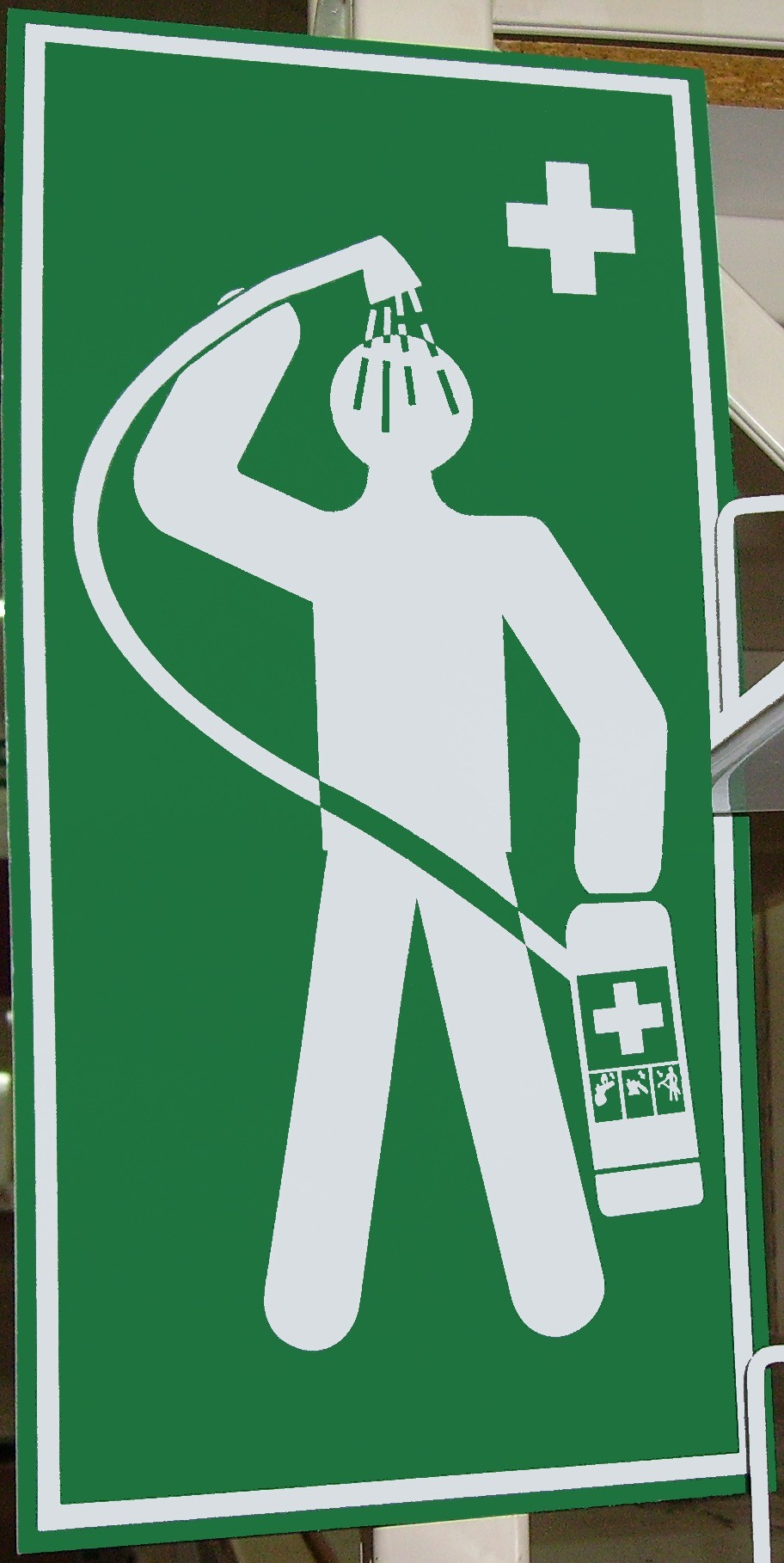 Portable safety shower: pictogram.